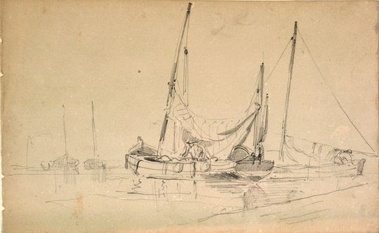 Two yawl-rigged fishing craft